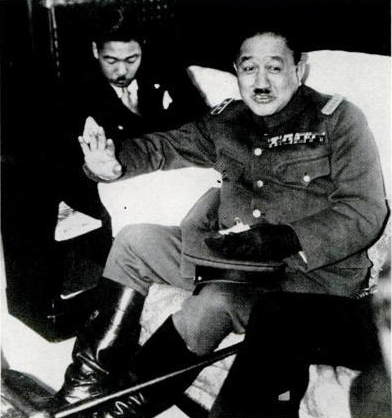 Japanese general and war criminal Doihara Kenji (1883-1948), probably in Japan, March 1936